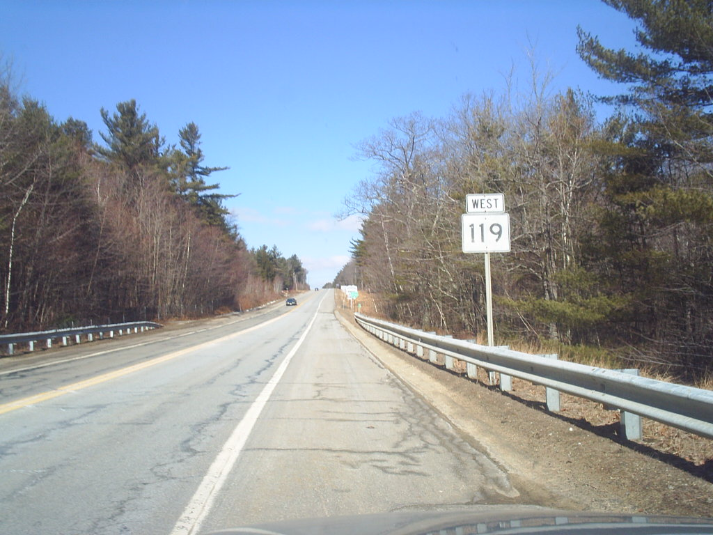 Massachusetts State Route 119 westbound signage through the rural portions of Ashbury.